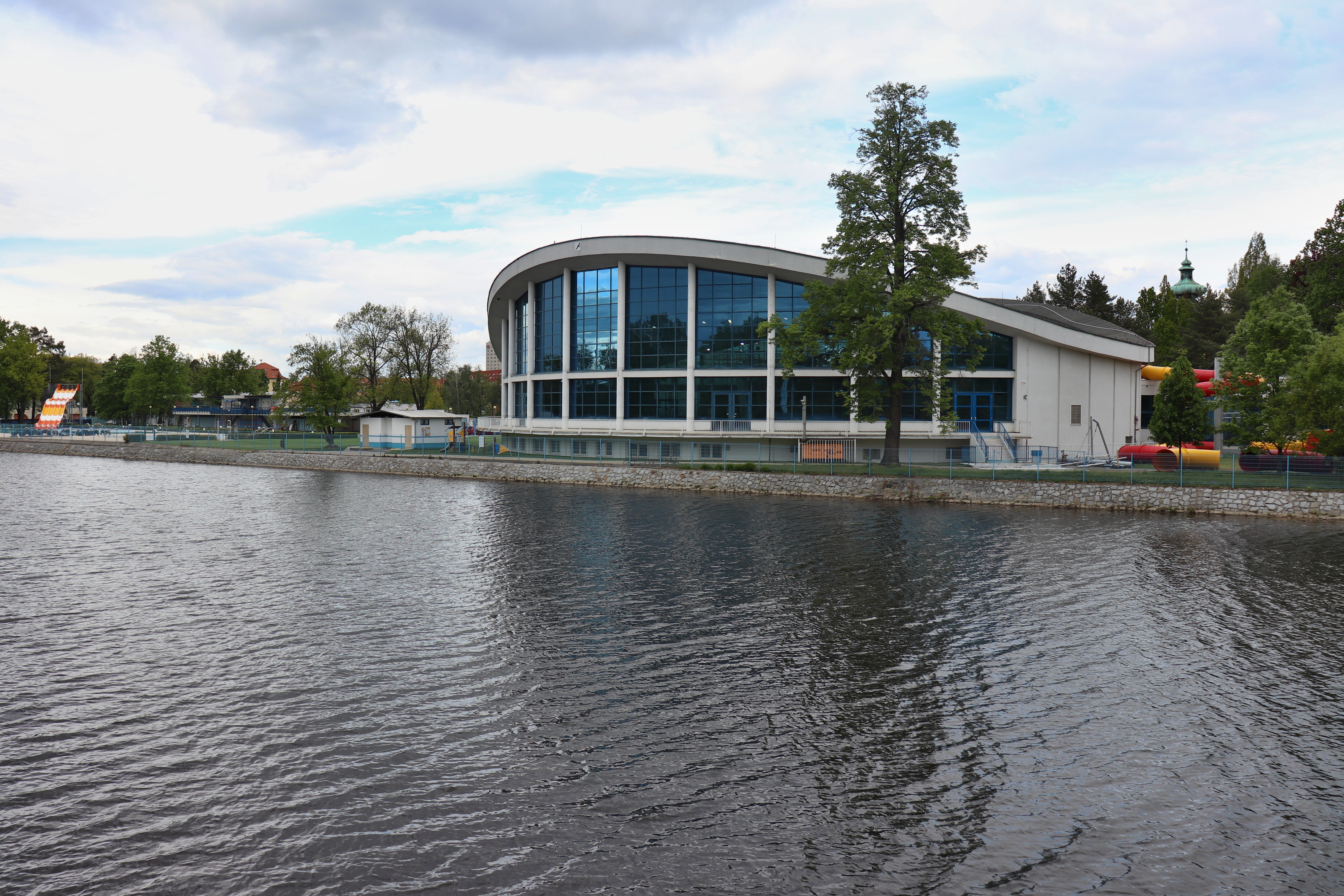 Swimming pool in České Budějovice